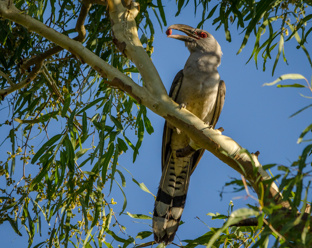 Channel-billed Cuckoo Scythrops novaehollandiae, Townsville, Queensland, Australia.